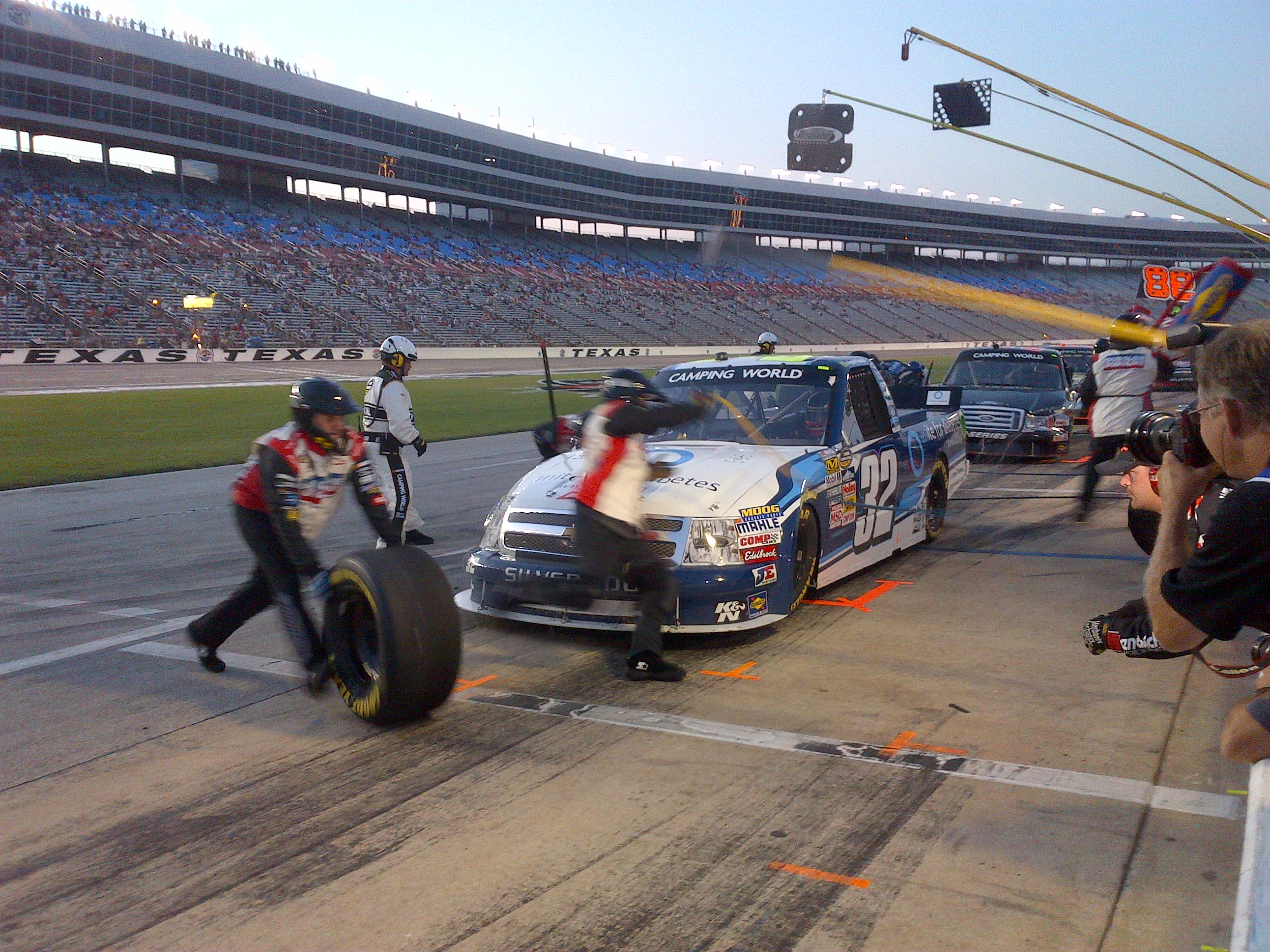 The No. 32 team performs a pit stop.